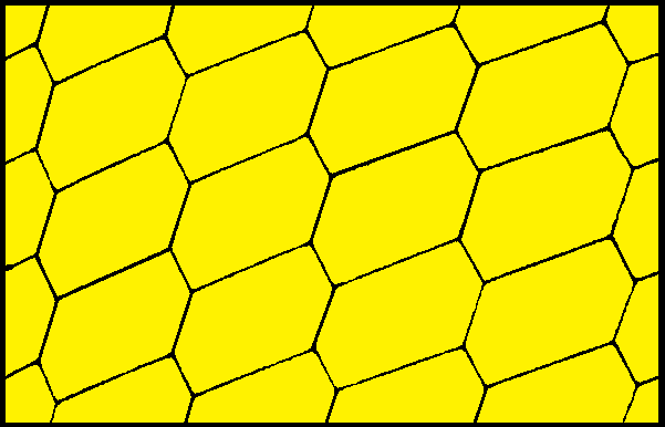 Isohedral tiling